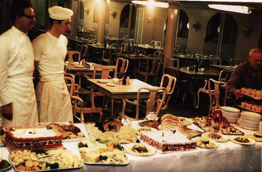 Christmas on board the TSMV Wanganella at Deep Cove Doubtful Sound. From left to right Andy Anderson head chef and Bruno Andersen assistant chef. for the Tunnel Workers